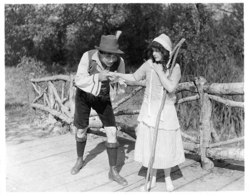 The Goose Girl publicity photo (modern digital watermark muted)